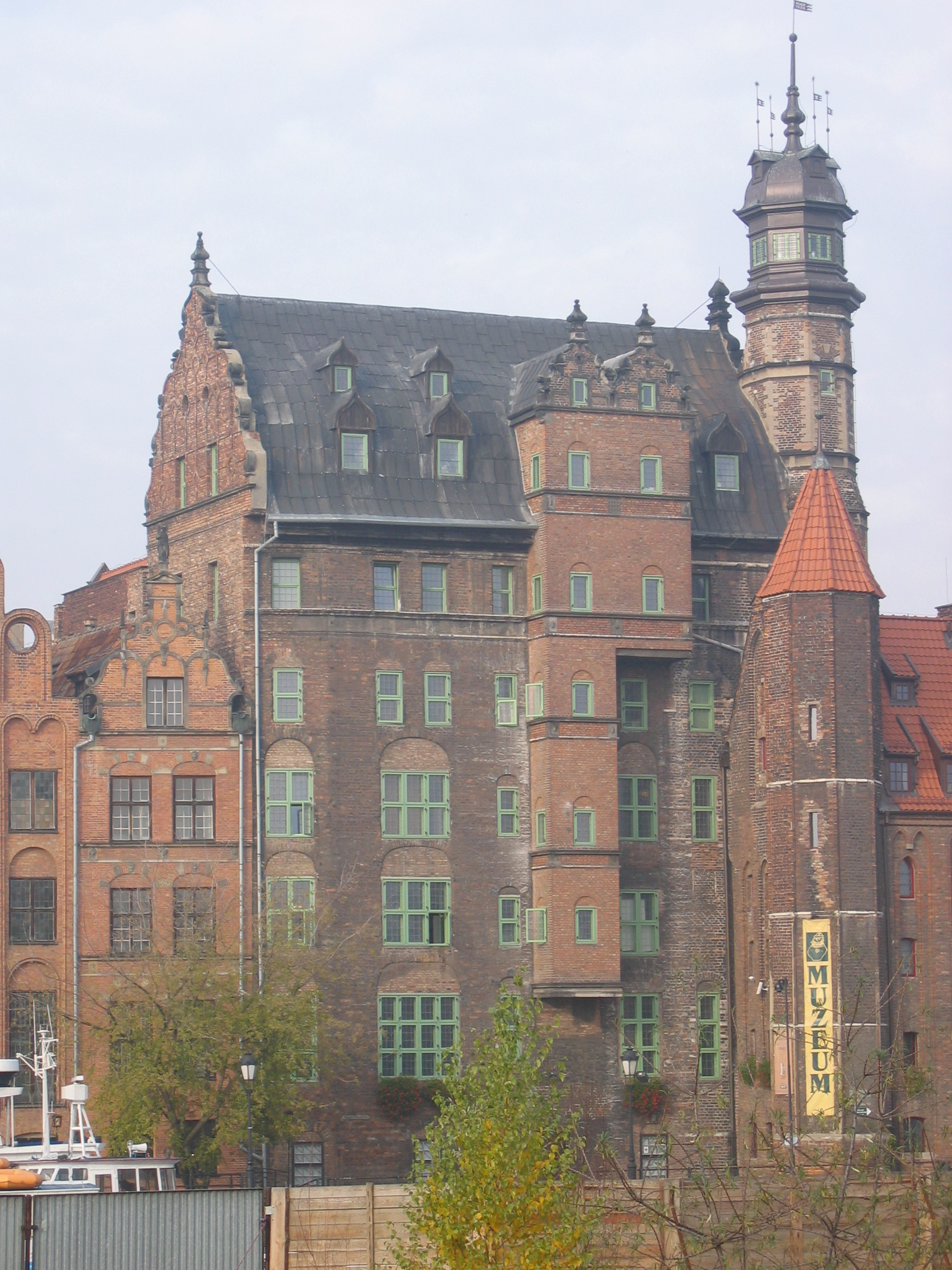 Gdansk, Poland, House of the Natural Scientific Society, view from the Granary Island.